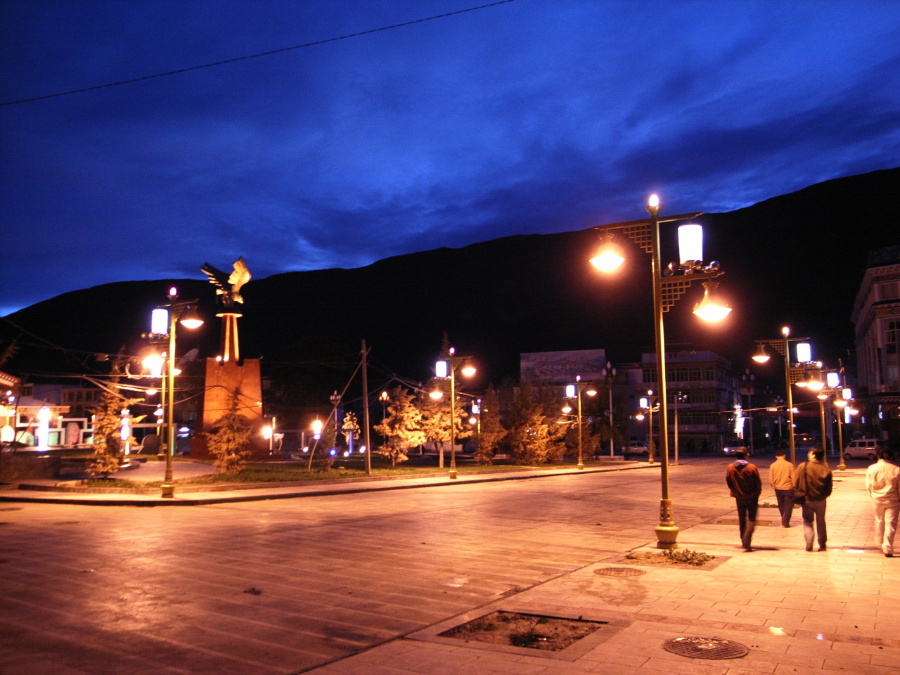 Batang, Garzê Tibetan Autonomous Prefecture, Sichuan, China